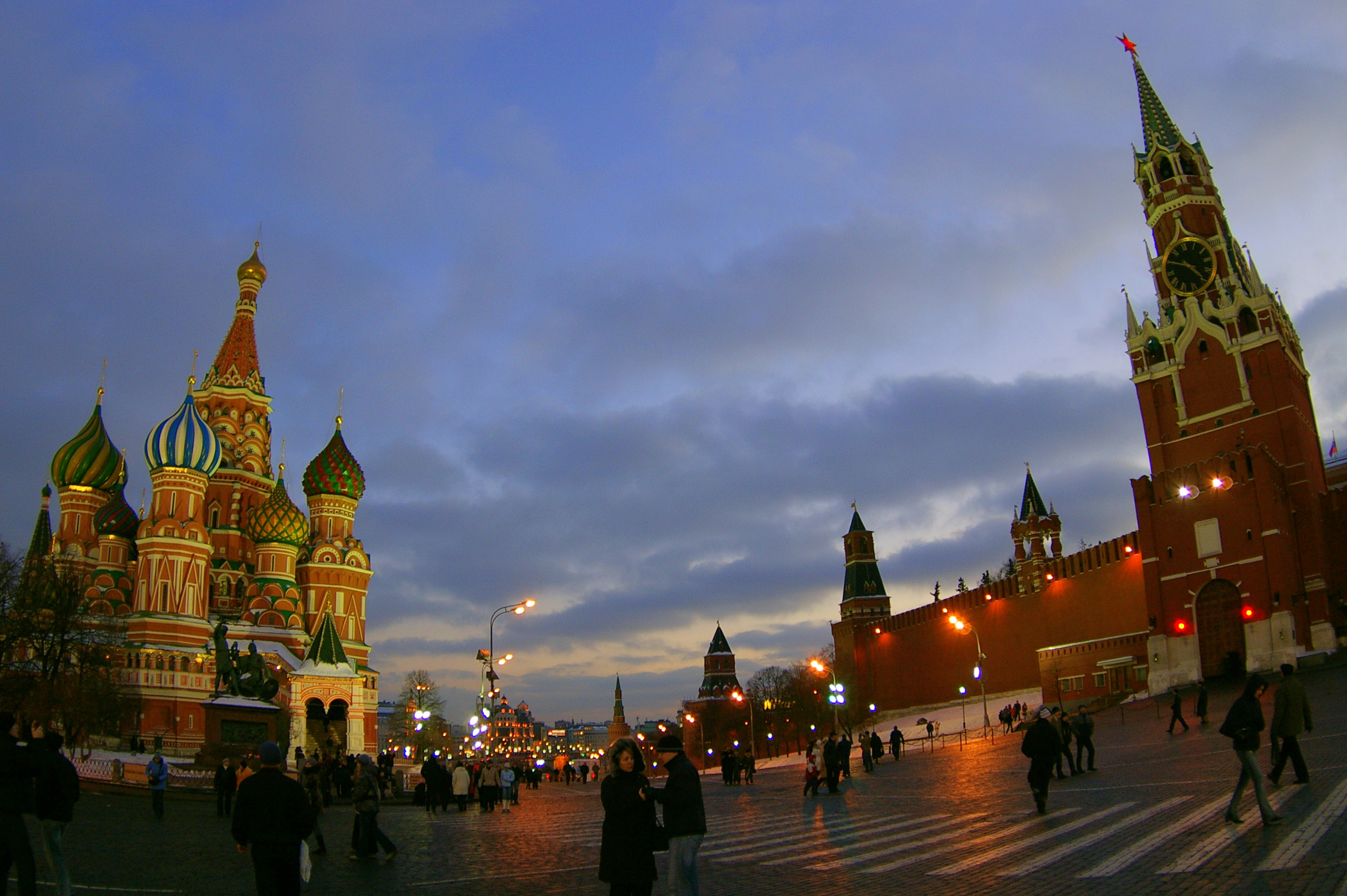 Red Square, Moscow, Russia